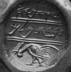 Wax impression of the seal of Jaazaniah, illustrating a fighting cock.